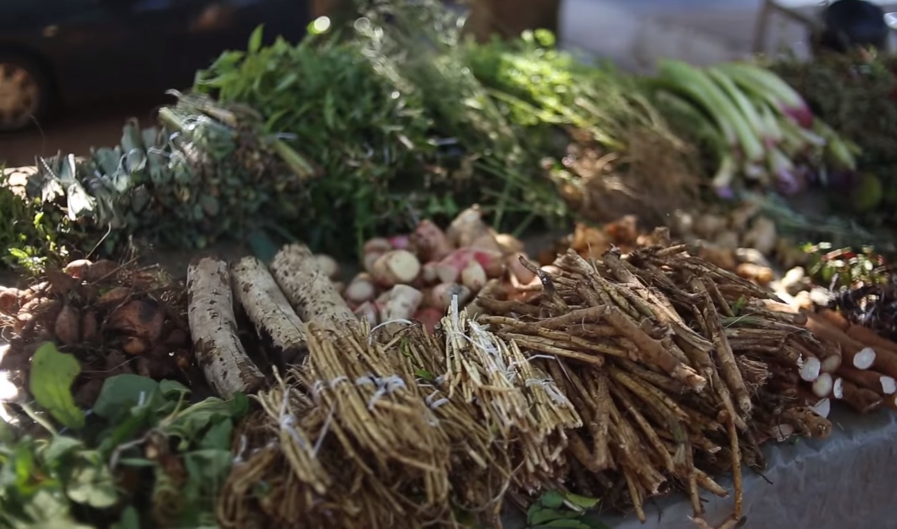 Herbs used in terere, a traditional drink of Paraguay